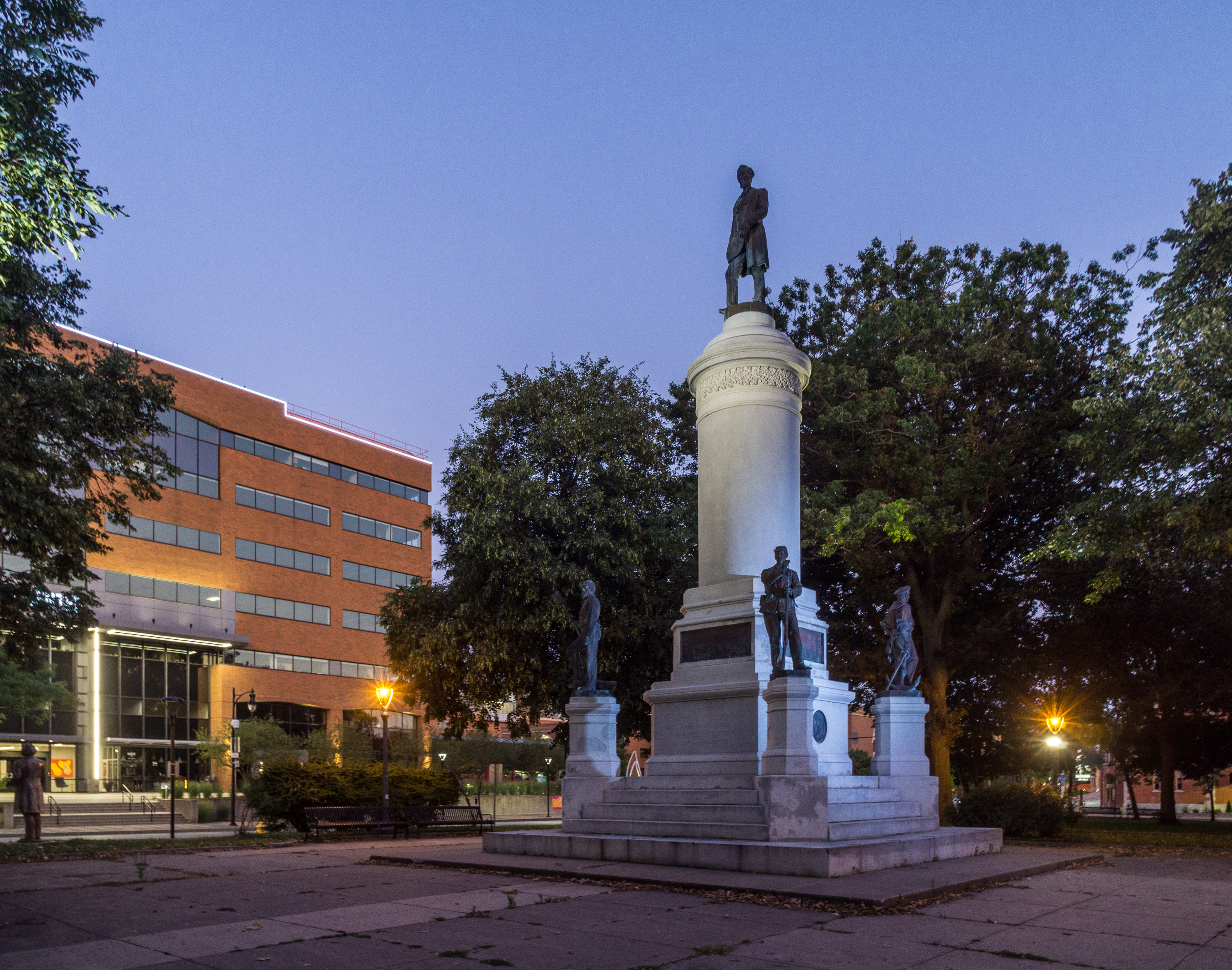 Civil War Memorial in Washington Square, Rochester, New York. At the top stands Abraham Lincoln.